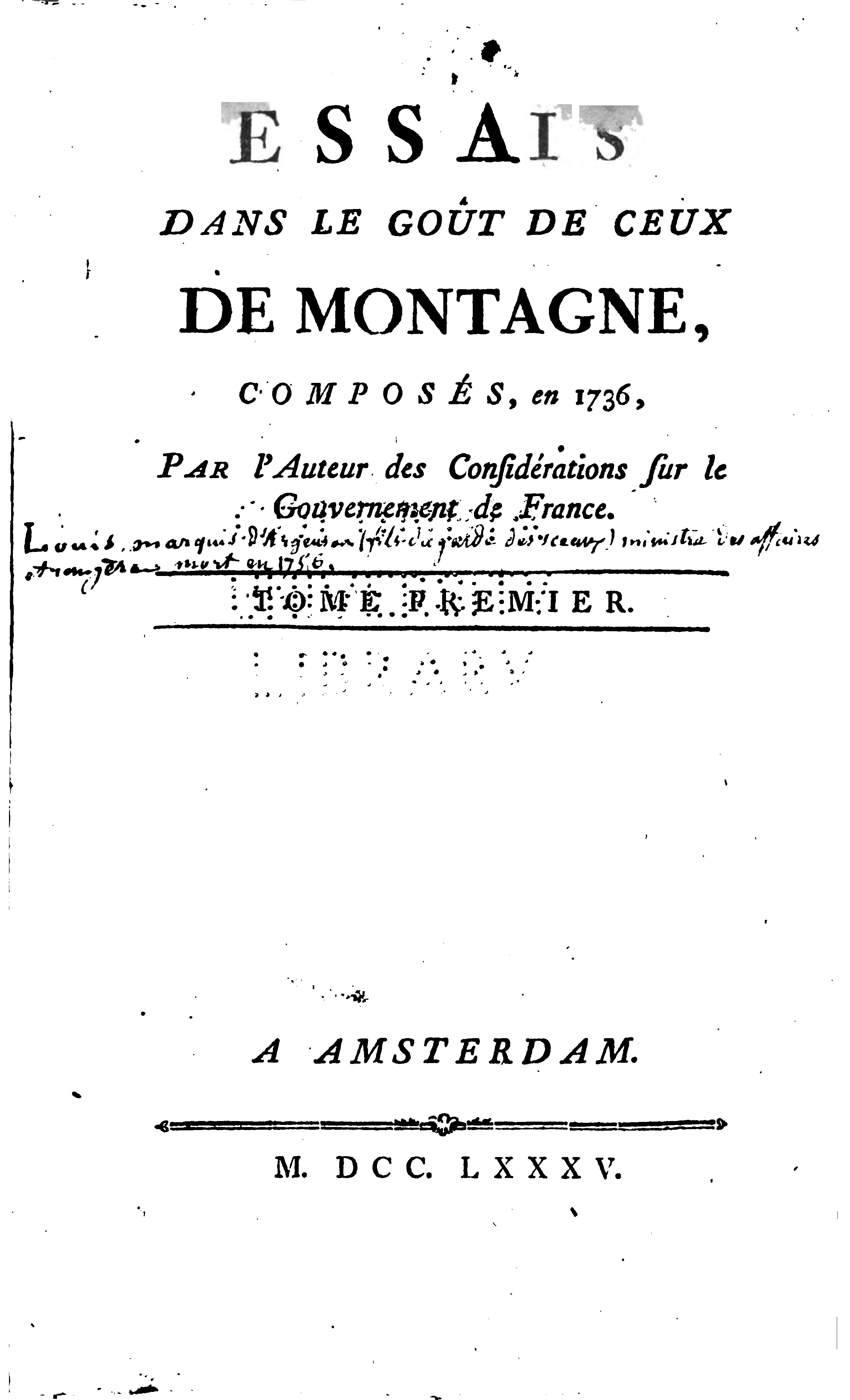 page de titre des "Essais dans le goût de ceux de Montaigne" par René Louis de Voyer de Paulmy d'Argenson